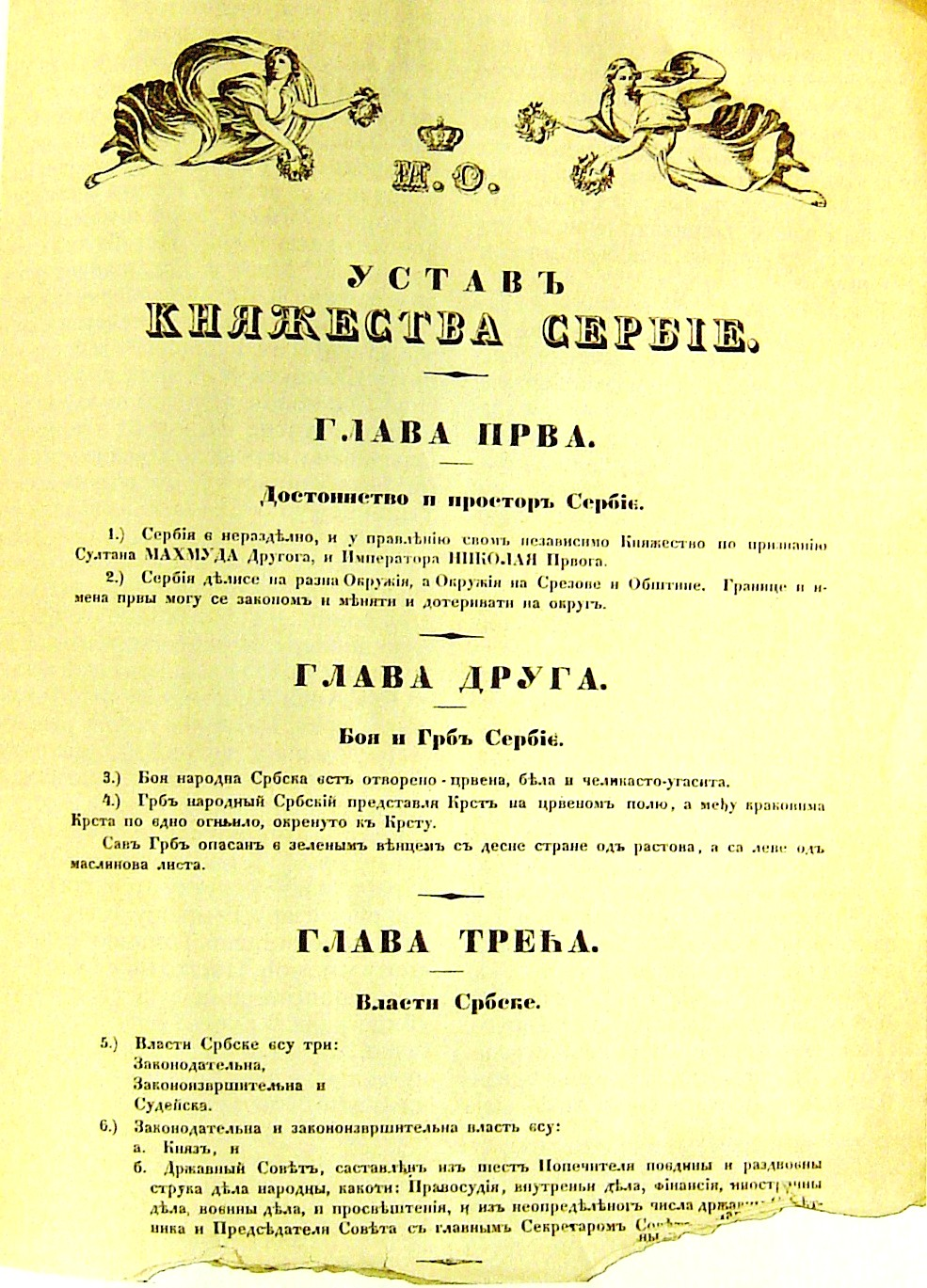 First page of first Serbian Constitution, made in 1835